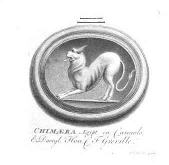 Gem engraving of a Chimaera. From A Collection of Fifty Prints from Antique Gems: in the collections of the Right Honourable Earl Percy, the Honourable C. F. Greville, and T. M. Slade, Esquire (1785).